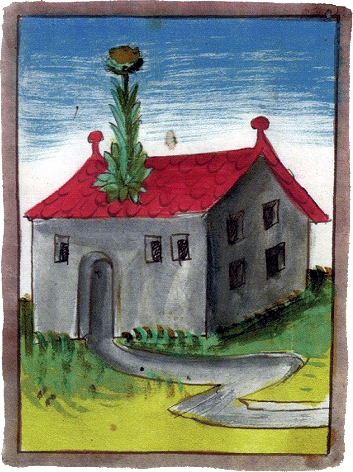 Houseleek. Plate of Johannes Hartliebs Anholter-Moyländer Kräuterbuch